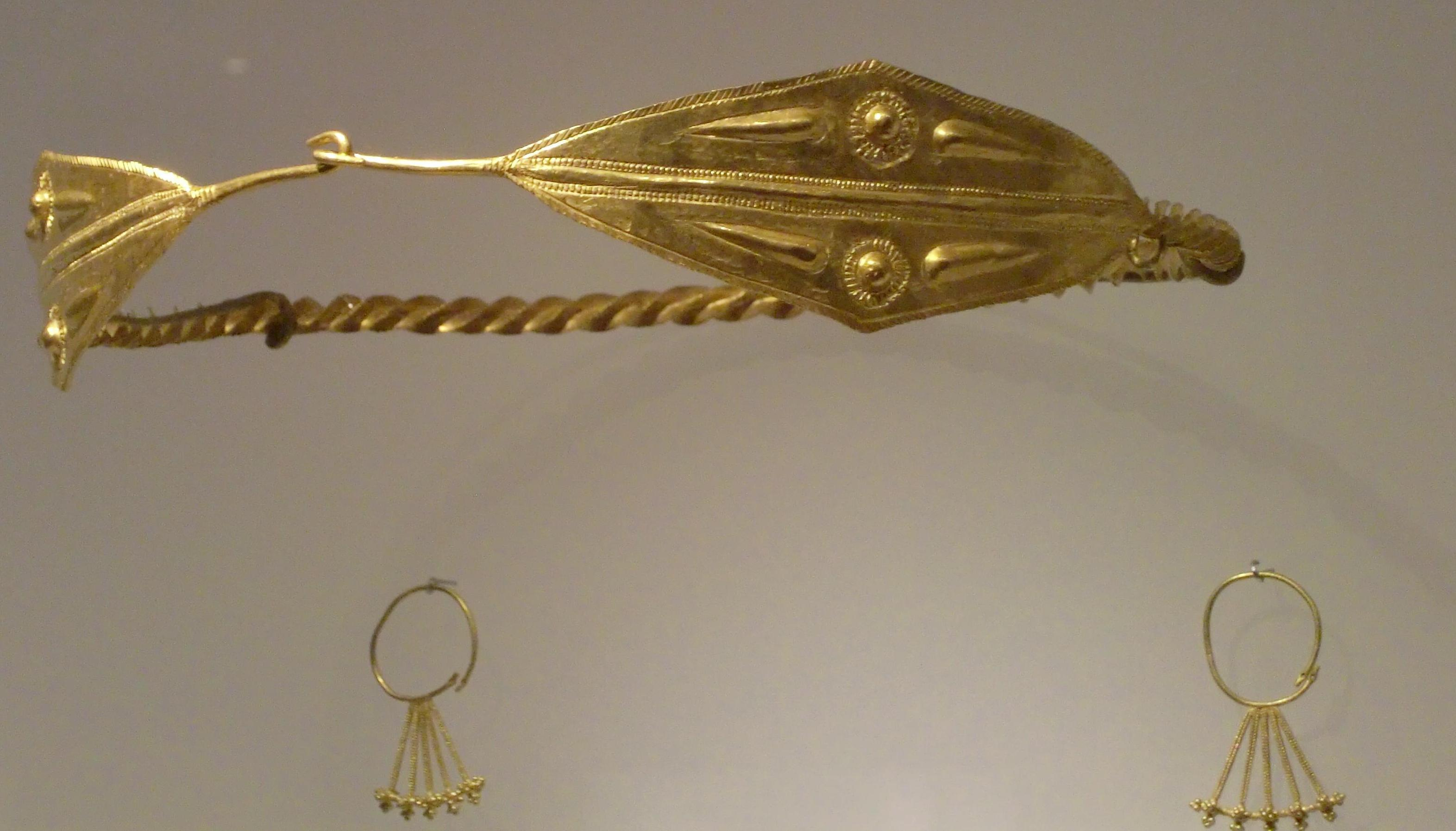 Colchis gold diadem, with thanks to the Georgian National Museum for allowing photography